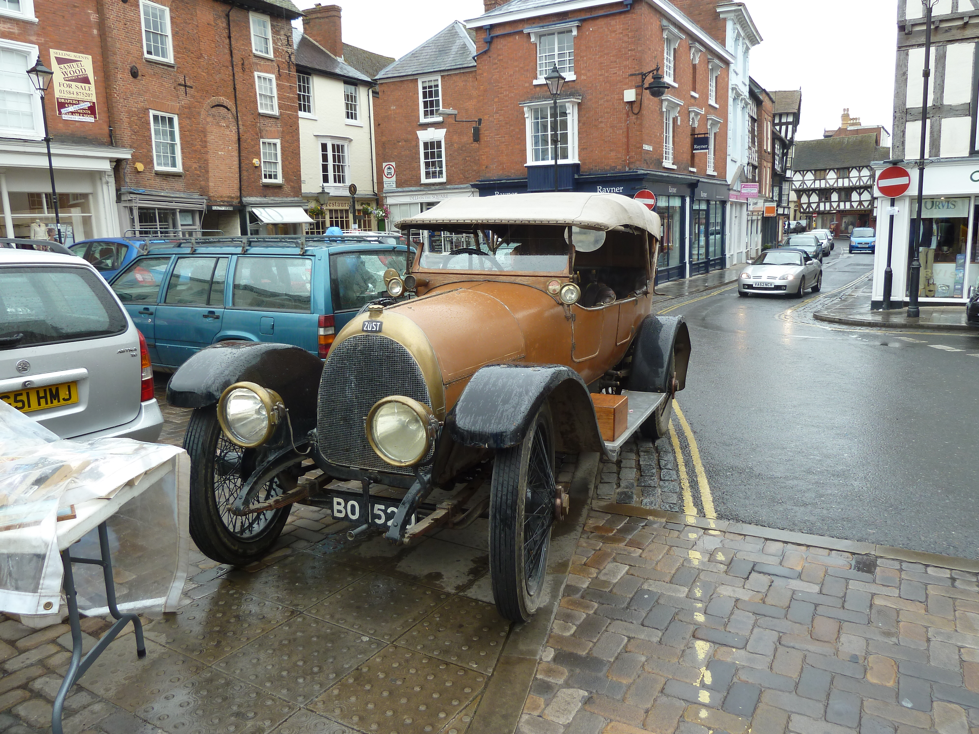 Züst 28hp car of 1912 Ludlow market